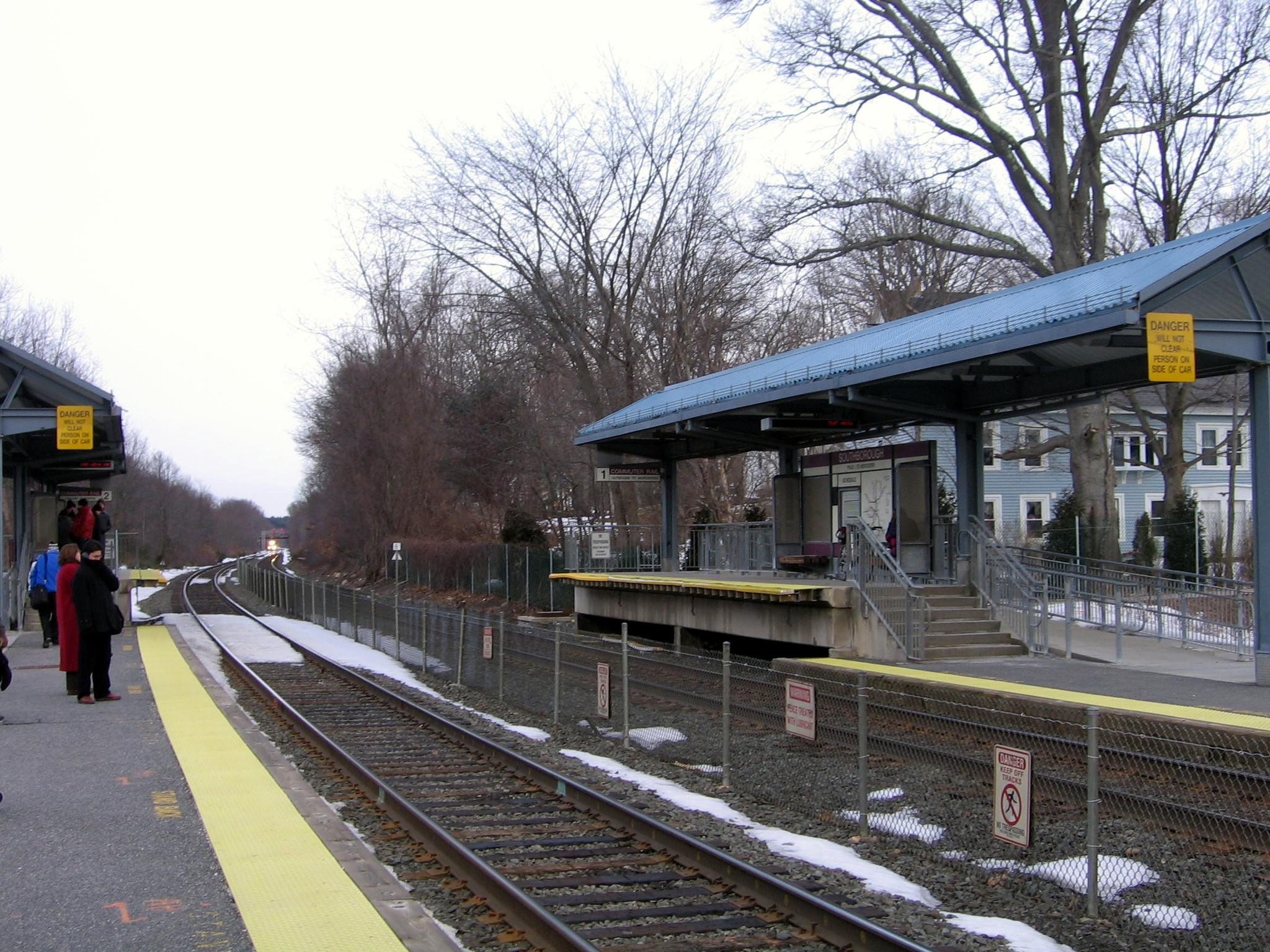 Southborough station shortly before the arrival of the 7:33am express MBTA Commuter Rail train to Boston